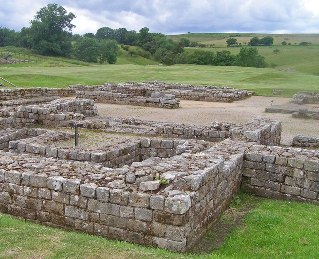 Vindolanda Roman Fort ruins Photograph is taken from within the fort complex.